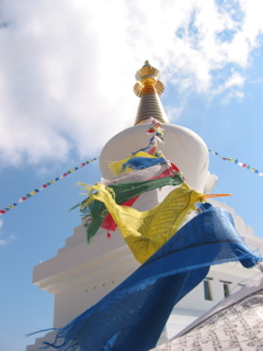 Peace Pagoda in Benalmádena, Andalucia